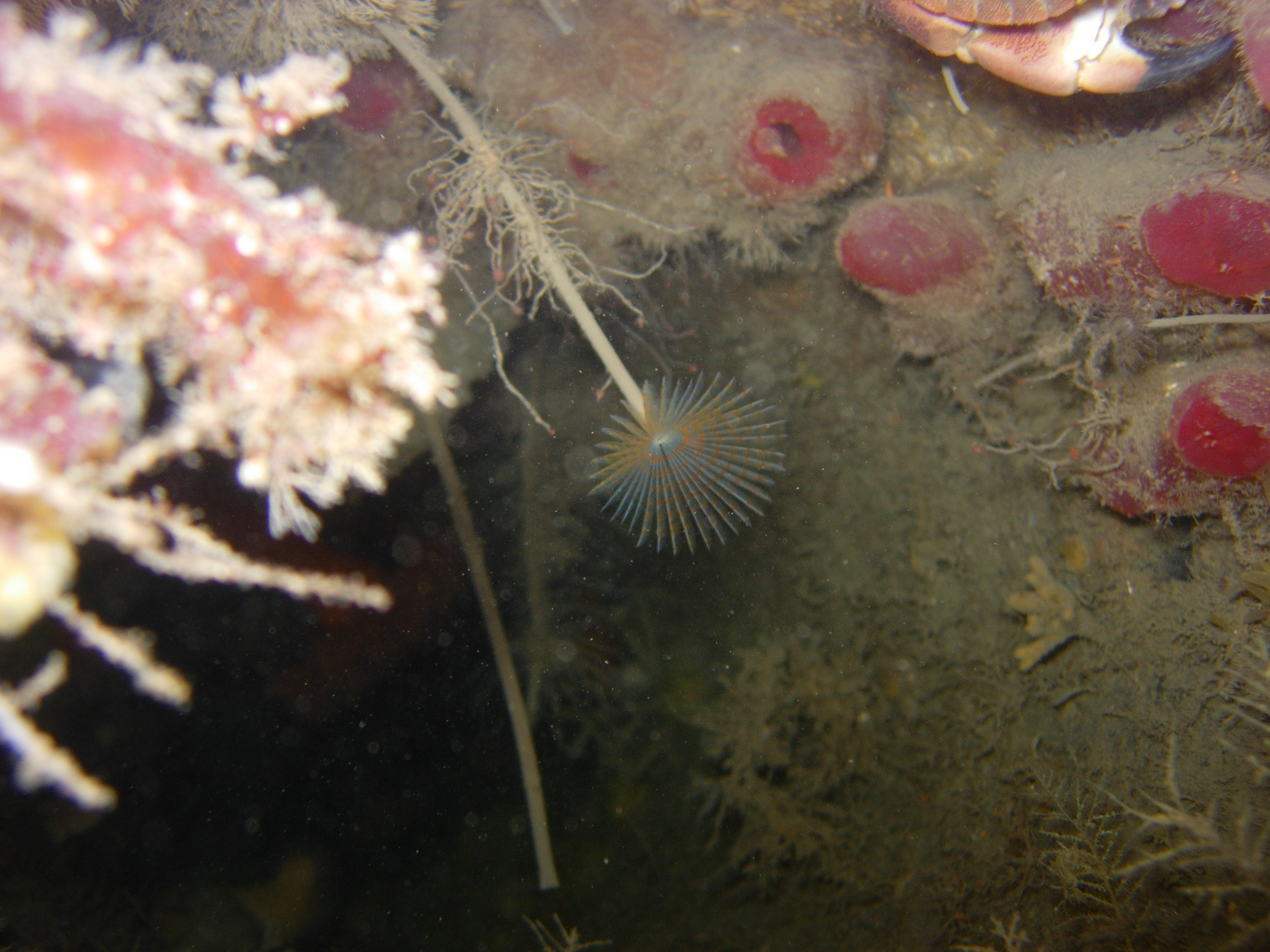 Peacock worm photographed during a Dundee Subaqua Club trip to the Sound of Mull.